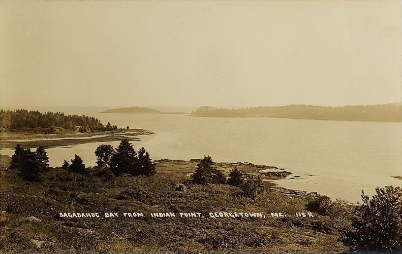 Sagadahoc Bay from Indian Point, Georgetown, ME; from a c. 1915 postcard